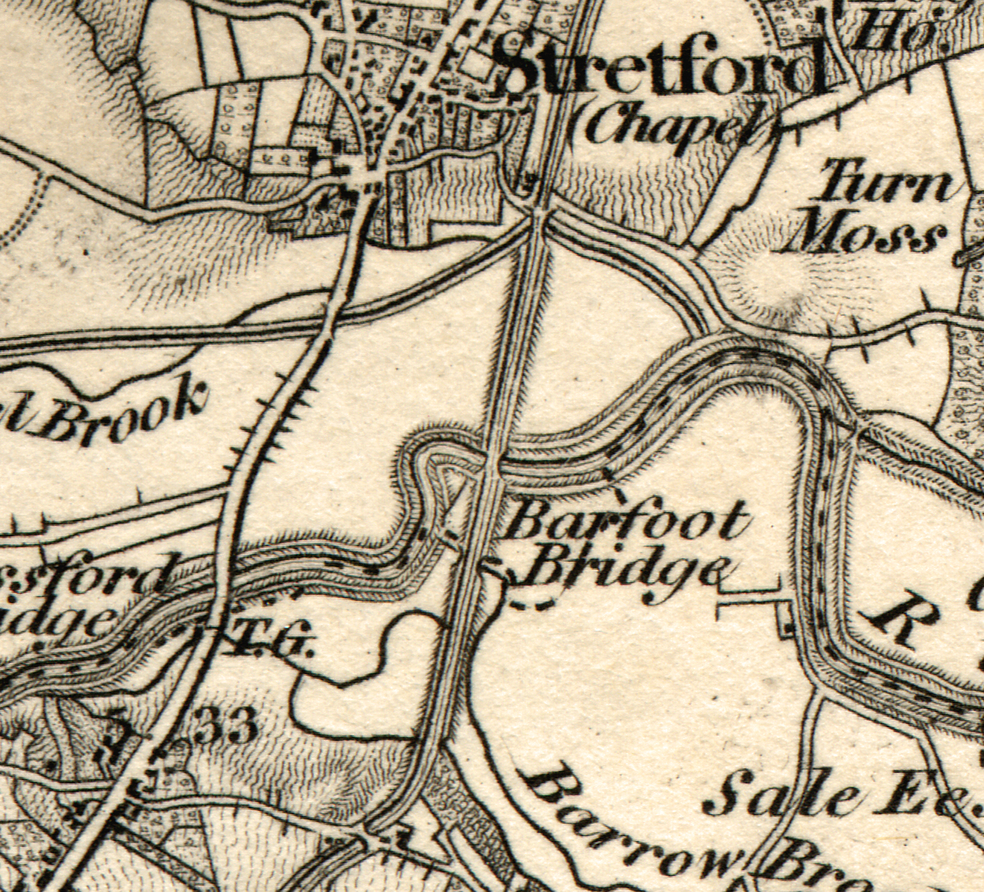 Section of Ordnance Survey map of 1843 showing Watling Street crossing River Mersey at Stretford.